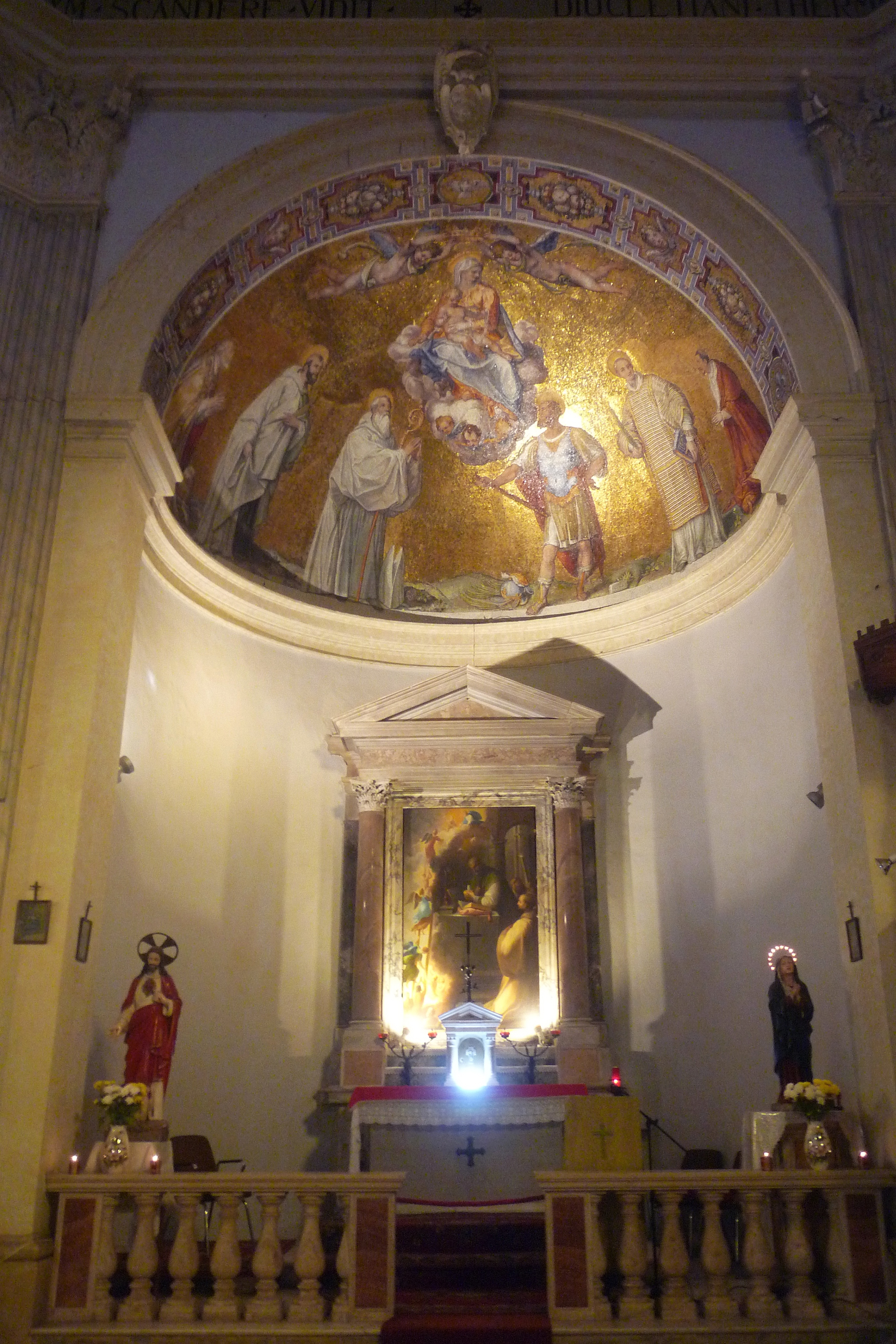 Church of the Santa Maria Scala Coeli, "Tre Fontane" Abbey, Rome - Italy